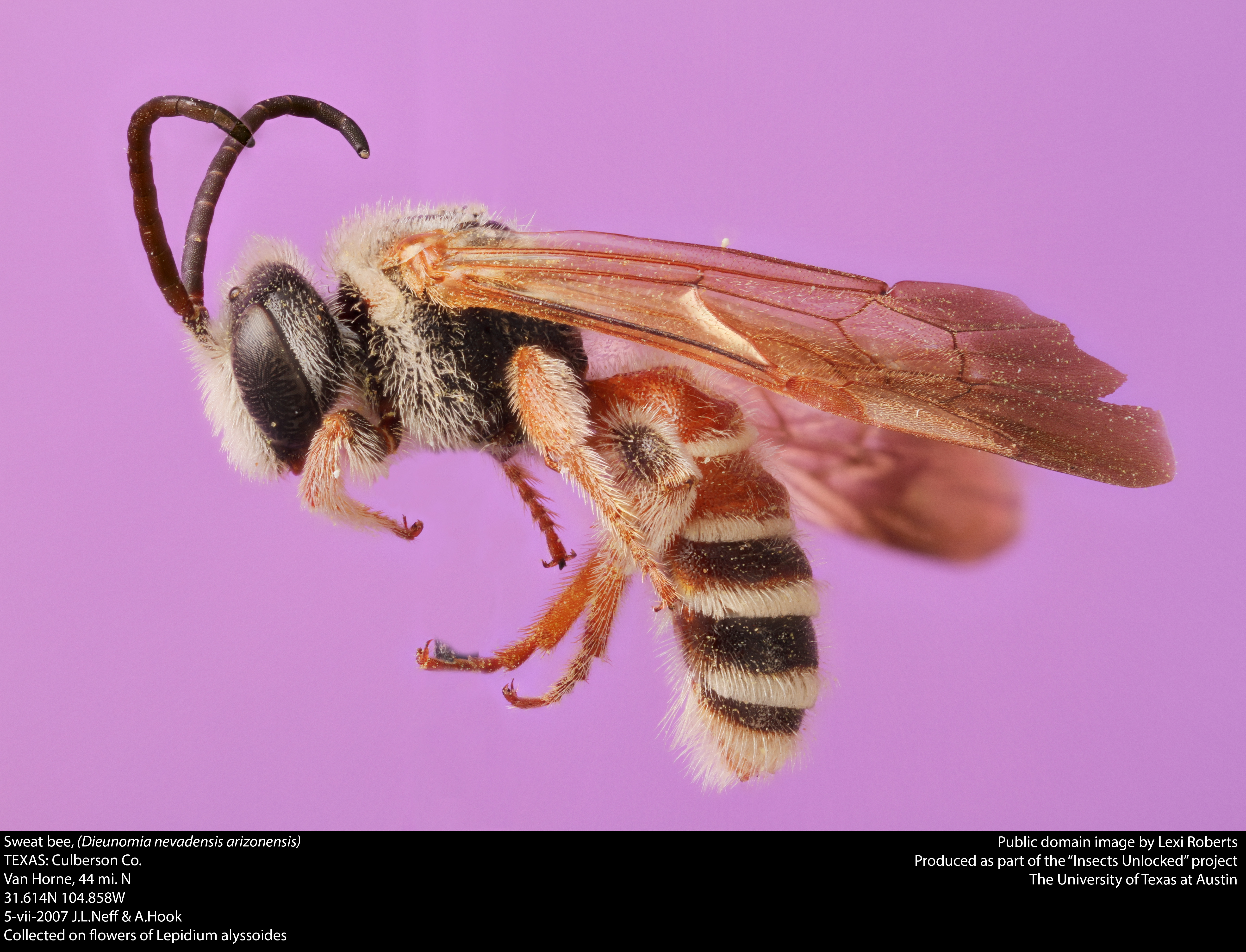 TEXAS: Culberson Co. Van Horne, 44 mi. N 31.614N 104.858W 5-vii-2007 J.L.Neff & A.Hook Collected on flowers of Lepidium alyssoides Dieunomia nevadensis arizonensis Public domain image by Lexi Roberts Produced as part of the “Insects Unlocked” project The University of Texas at Austin This image was created as part of the Insects Unlocked project at the University of Texas at Austin. Based in the UT insect collection at Brackenridge Field Laboratory, part of the Department of Integrative Biology. Do not crop: This image is used on one or more sister projects, where its entire contents are wanted. If you crop it, please save the new image separately, and do not overwrite this one.